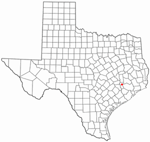 Locator map for Prairie View , Texas